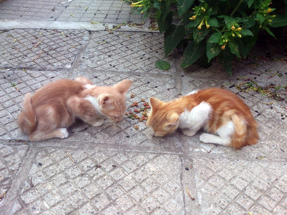 A bicolor pink-white cat and a bicolor orange-white cat.